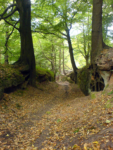 Robin Hood Way, through cutting Robin Hood Way passes through this eerie spot in an area labelled "Busaco" on the 1:25k OS map. The graffiti scratched into the walls of the cutting makes for interesting reading. I spotted one at ground level dated at 1944 but I would suspect that there are markings from well before that date.